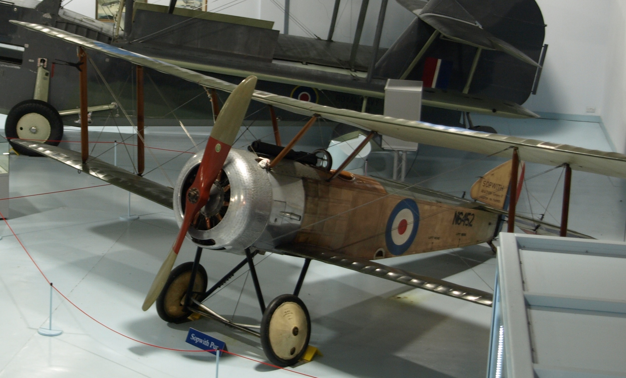 Sopwith Pup replica aircraft on display at the Fleet Air Arm Museum, RNAS Yeovilton.